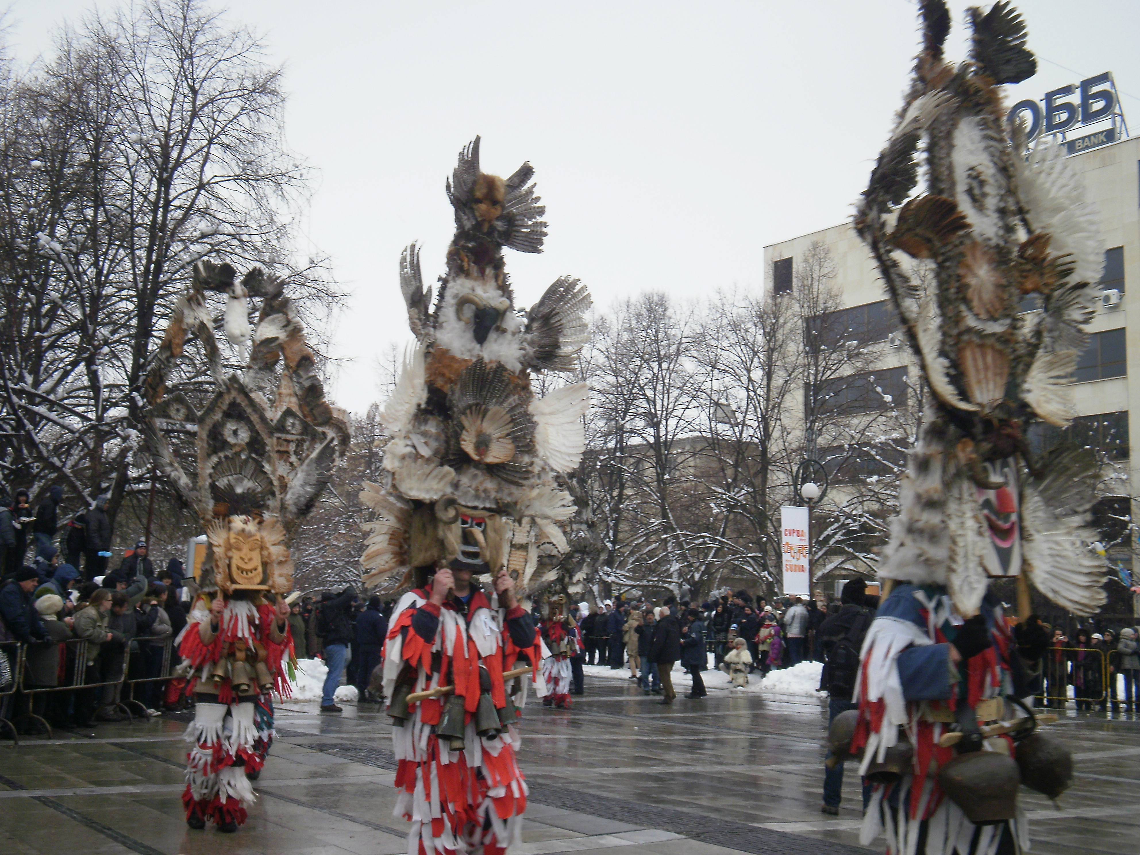 Kukeri from Begunovtsi, Pernik Province - XXI International festival of masquerade games "Surva", Pernik 2012.